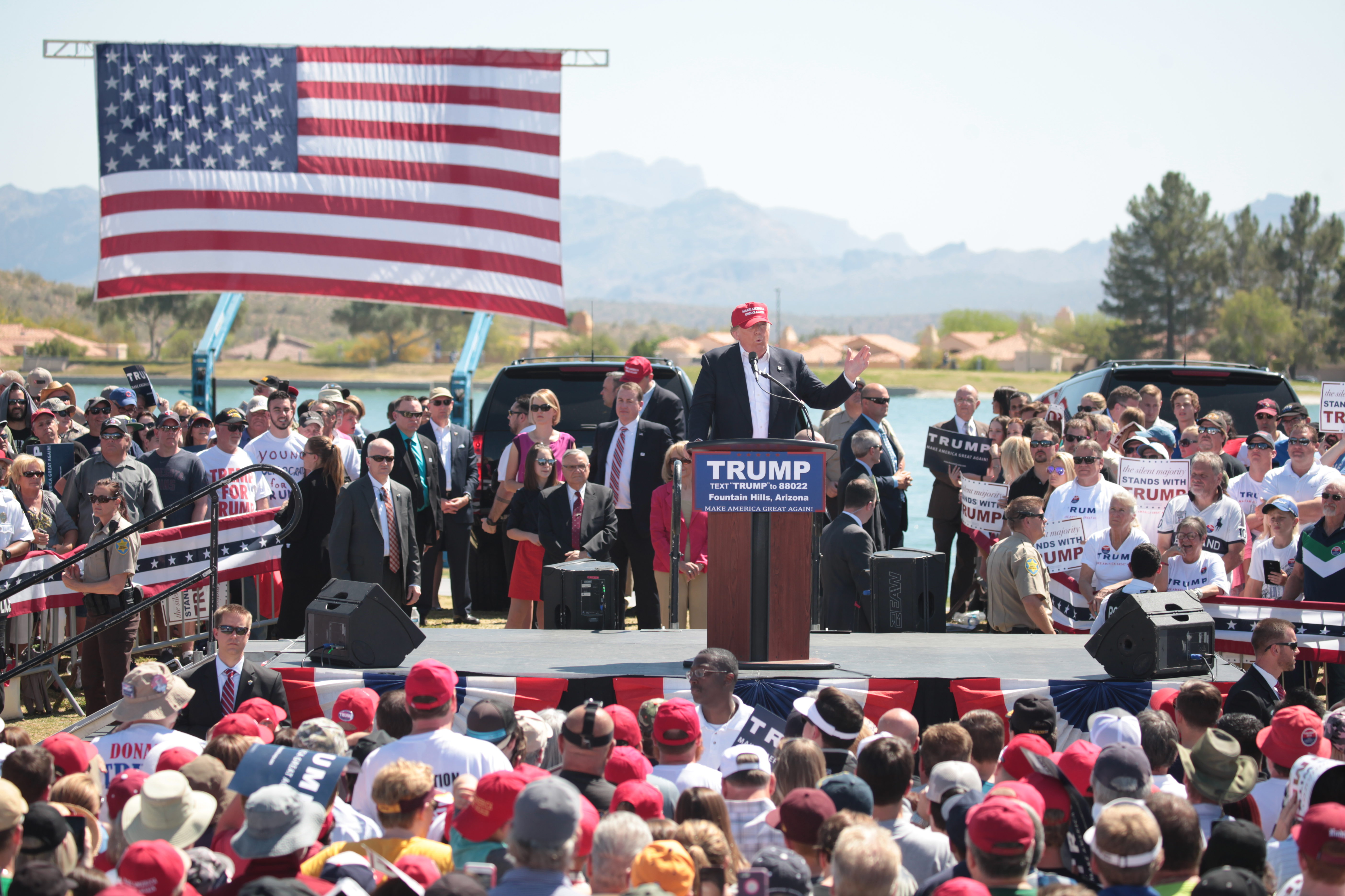 Donald Trump speaking with supporters at a campaign rally at Fountain Park in Fountain Hills, Arizona.